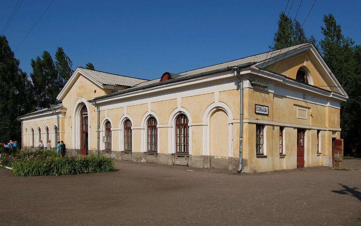 Station